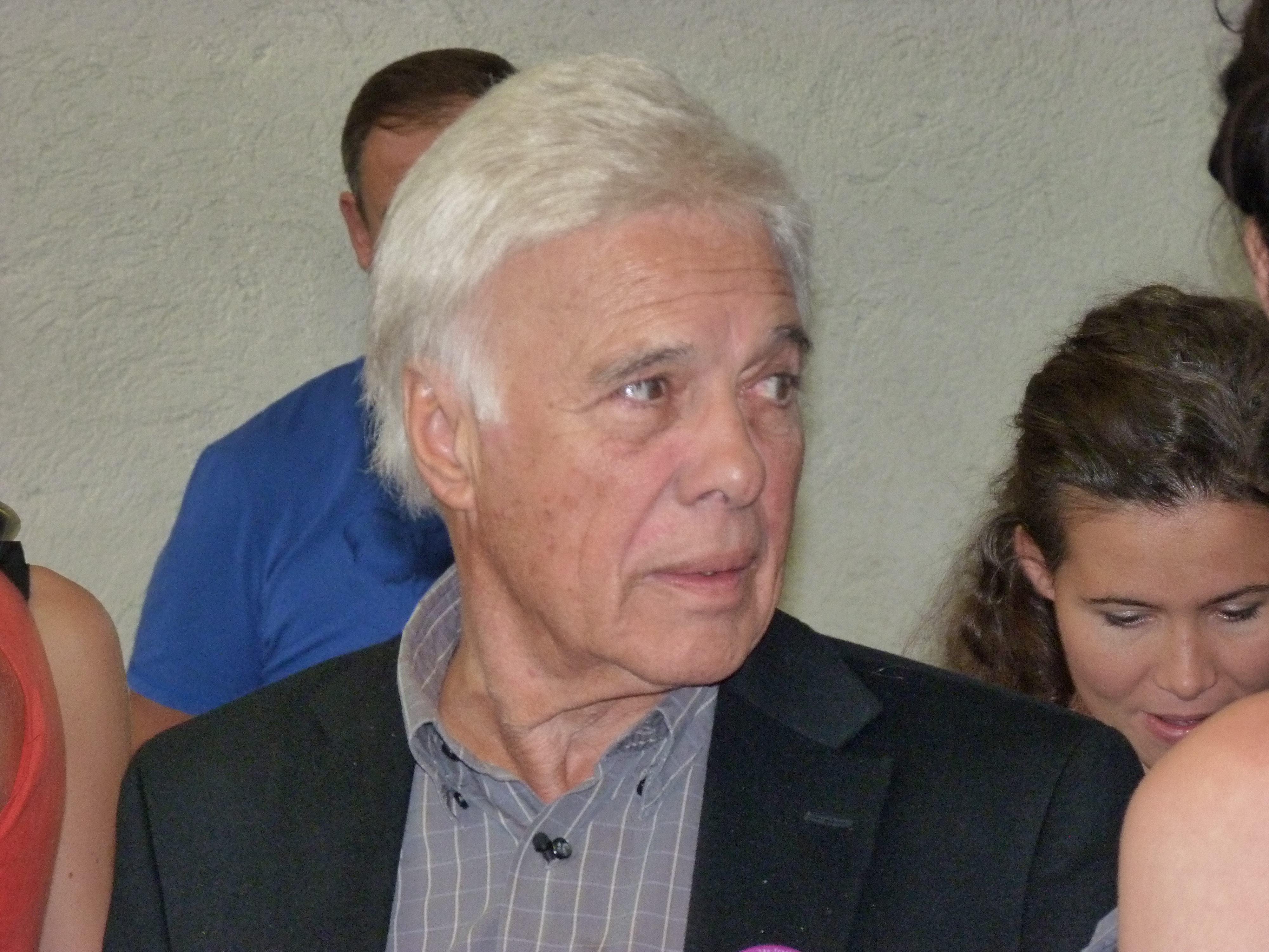 Guy Bedos at the 2011 Mouans-Sartoux Literature Festival.